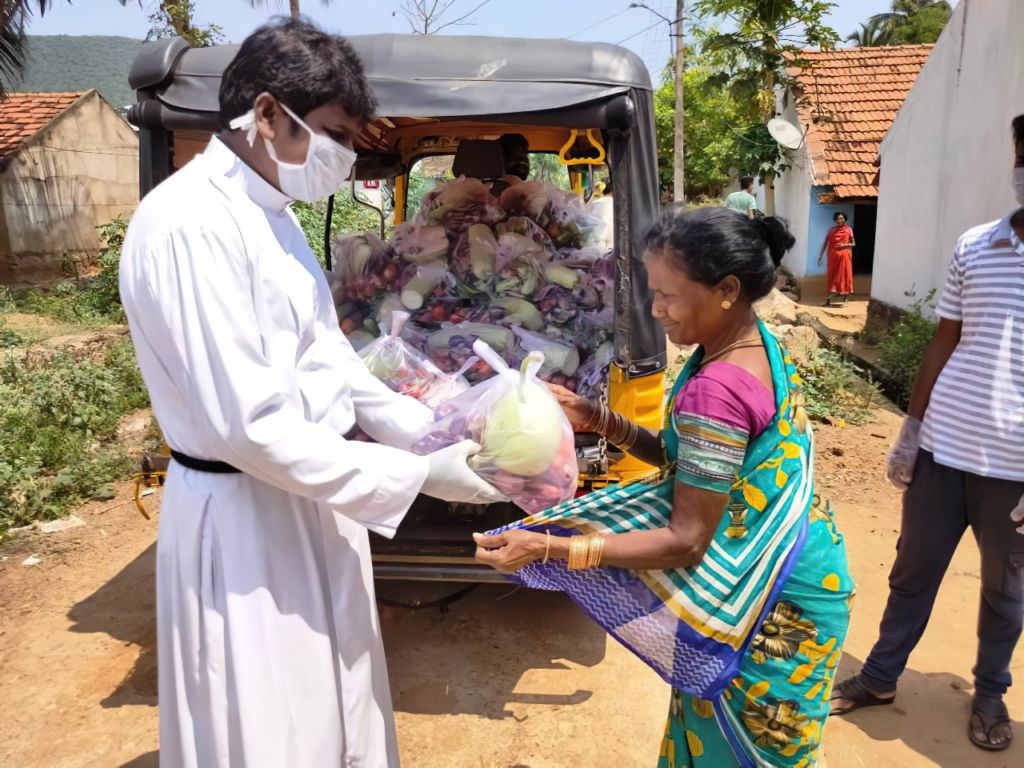 Gospel for Asia distributes vegetables in Andhra Pradesh during Covid lockdown